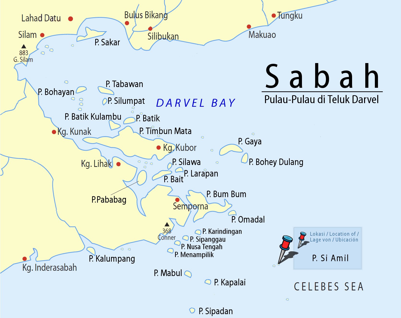 Sabah: Scheme of Islands in the Darvel Bay with Pushpin Marker for Pulau Si Amil (which is not part of the Darvel Bay)